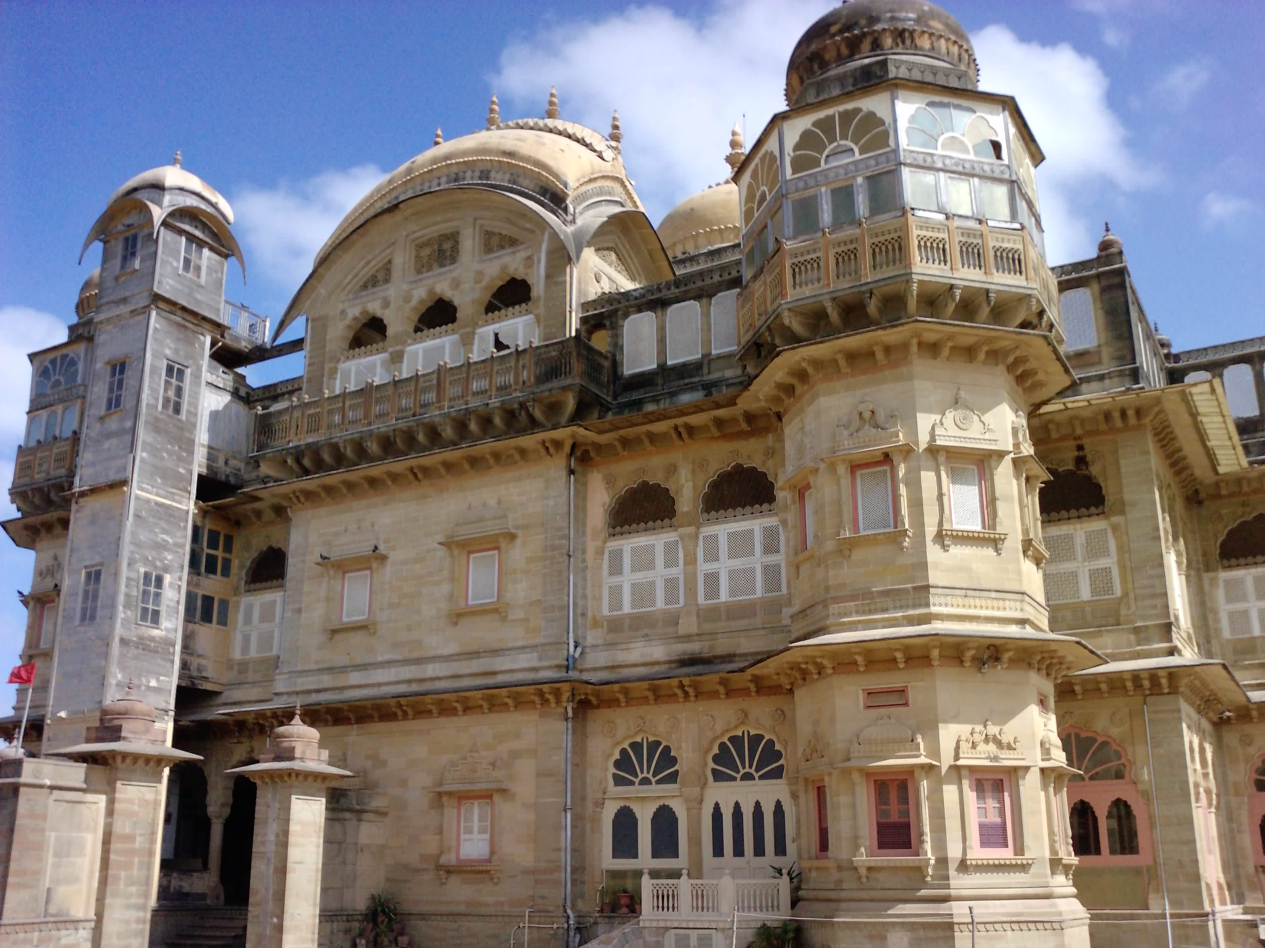 Balcony view of the palace with total surrounding of greenery and sea port.Built in 1929 by Rao Vijayrajji, this palace is very well-maintained, and often the scene of filming for Bollywood productions. This palace is near to mandvi-Kuch area.